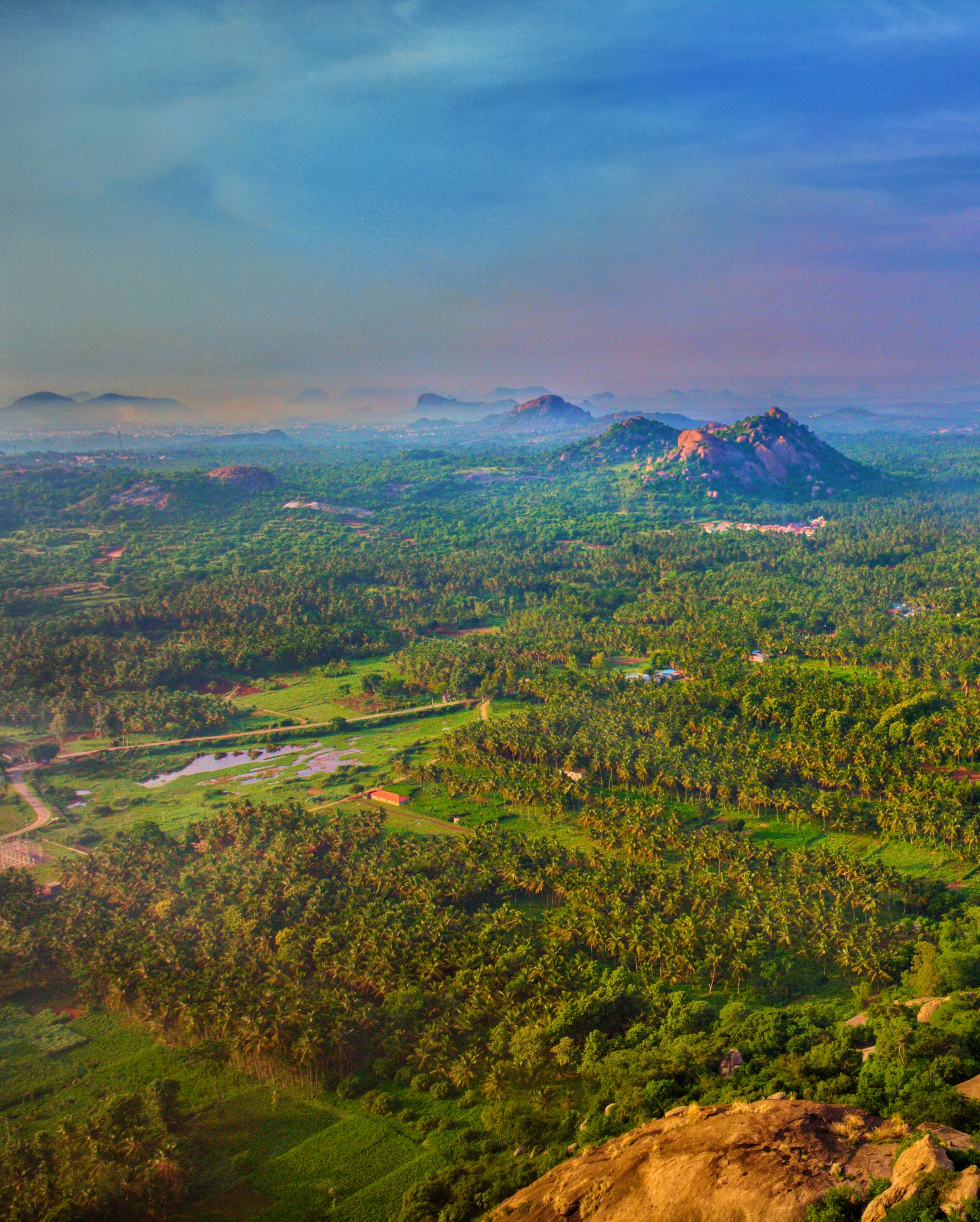 Ramanagara Ramadevara Betta near Bengaluru